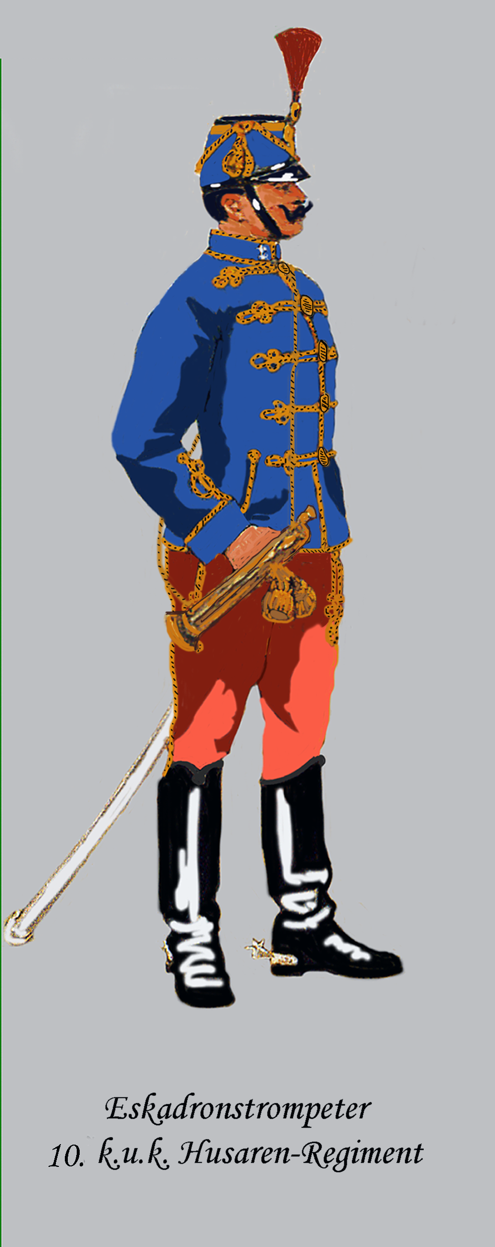 Bugler of the 10th Austria-Hungarian Hussars-Regiment. Service dress. Uniform in use until about 1916